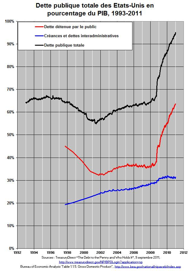 Total public debt outstanding in percentage of GDP, United States, 1993-2011